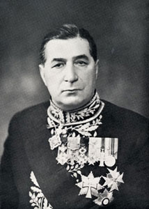 Matila Ghyka, Romanian minister plenipotentiary in diplomatic uniform, Stockholm 1933